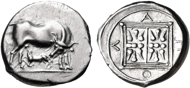 ILLYRIA, Apollonia. Circa 340-280 BC. AR Stater (21mm, 10.40 g, 11h). Cow standing right, head lowered left, suckling calf / Double stellate pattern within dual linear border; A Π O Λ around. Meadows